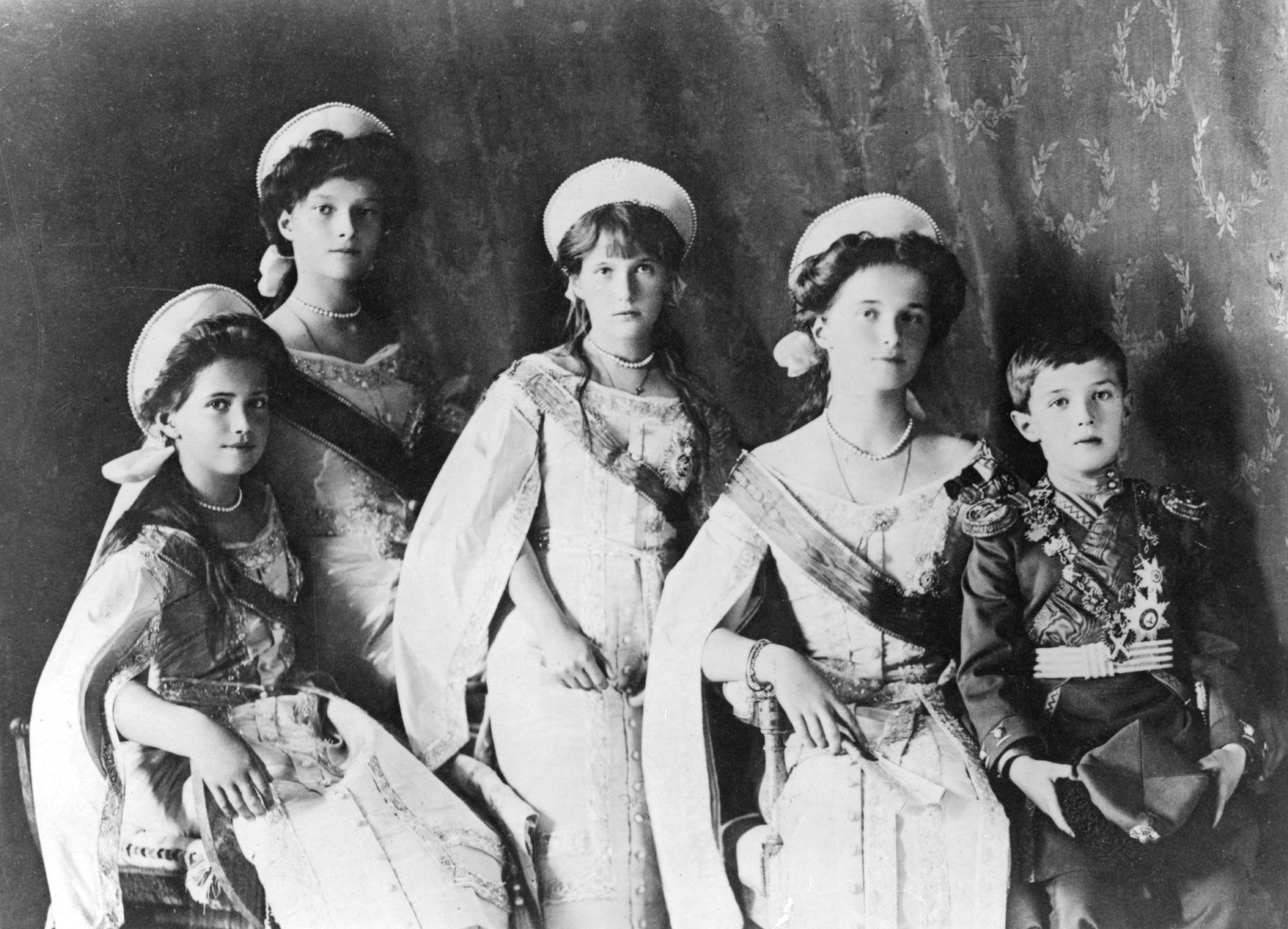 Grand Duchesses Maria, Olga, Tatiana and Anastasia Nikolaevna of Russia and Tsarevich Alexei of Russia in 1910.